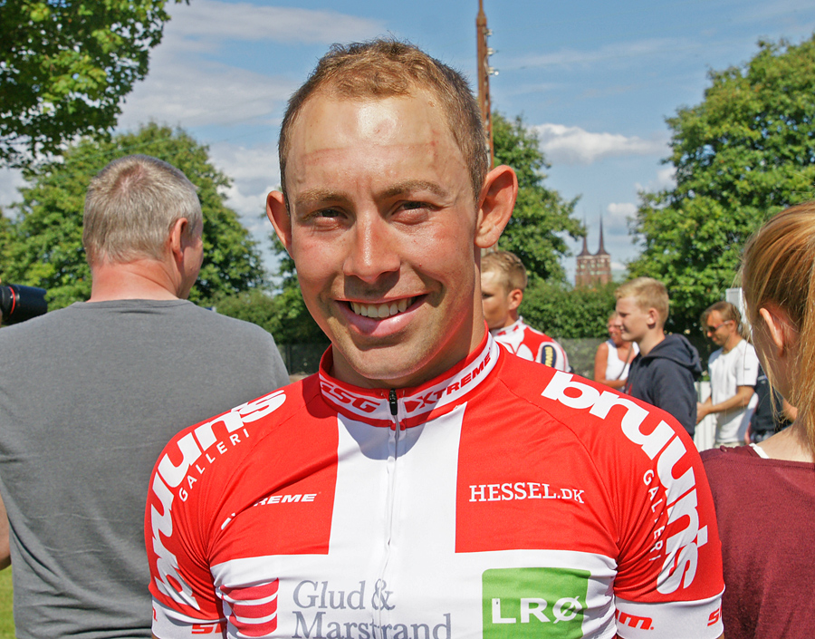 Sebastian Lander, Denmark - Danish road race champion 2012 - here from Post Cup in Roskilde, Denmark